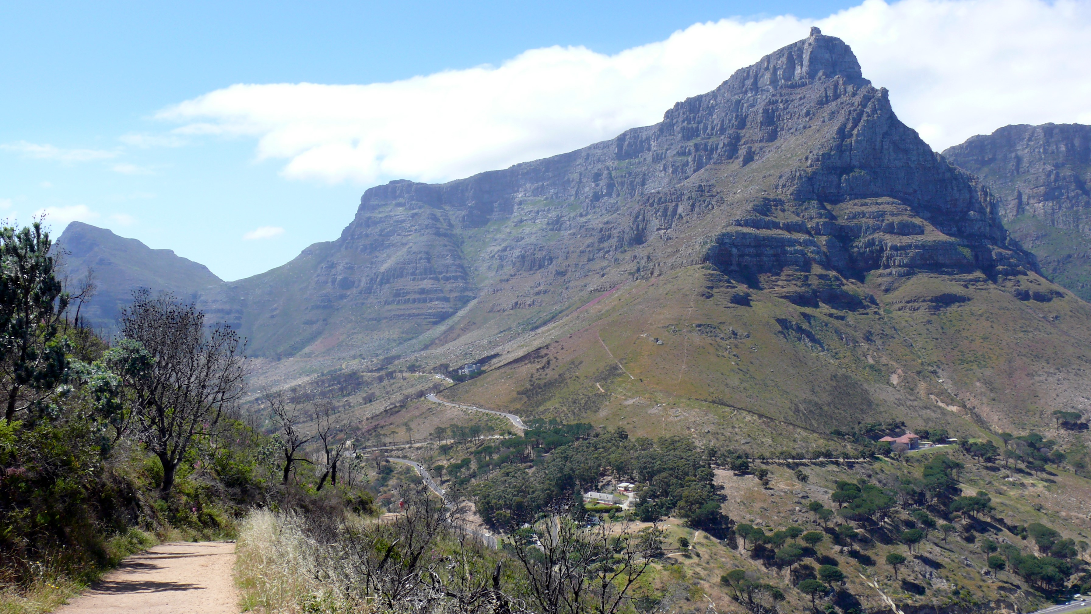 Table Mountain from slopes of Lion's Head